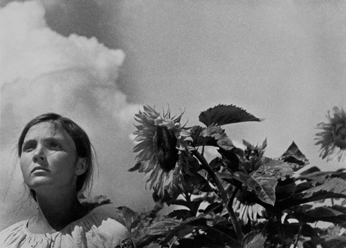 A still from Dovzhenko's Earth.